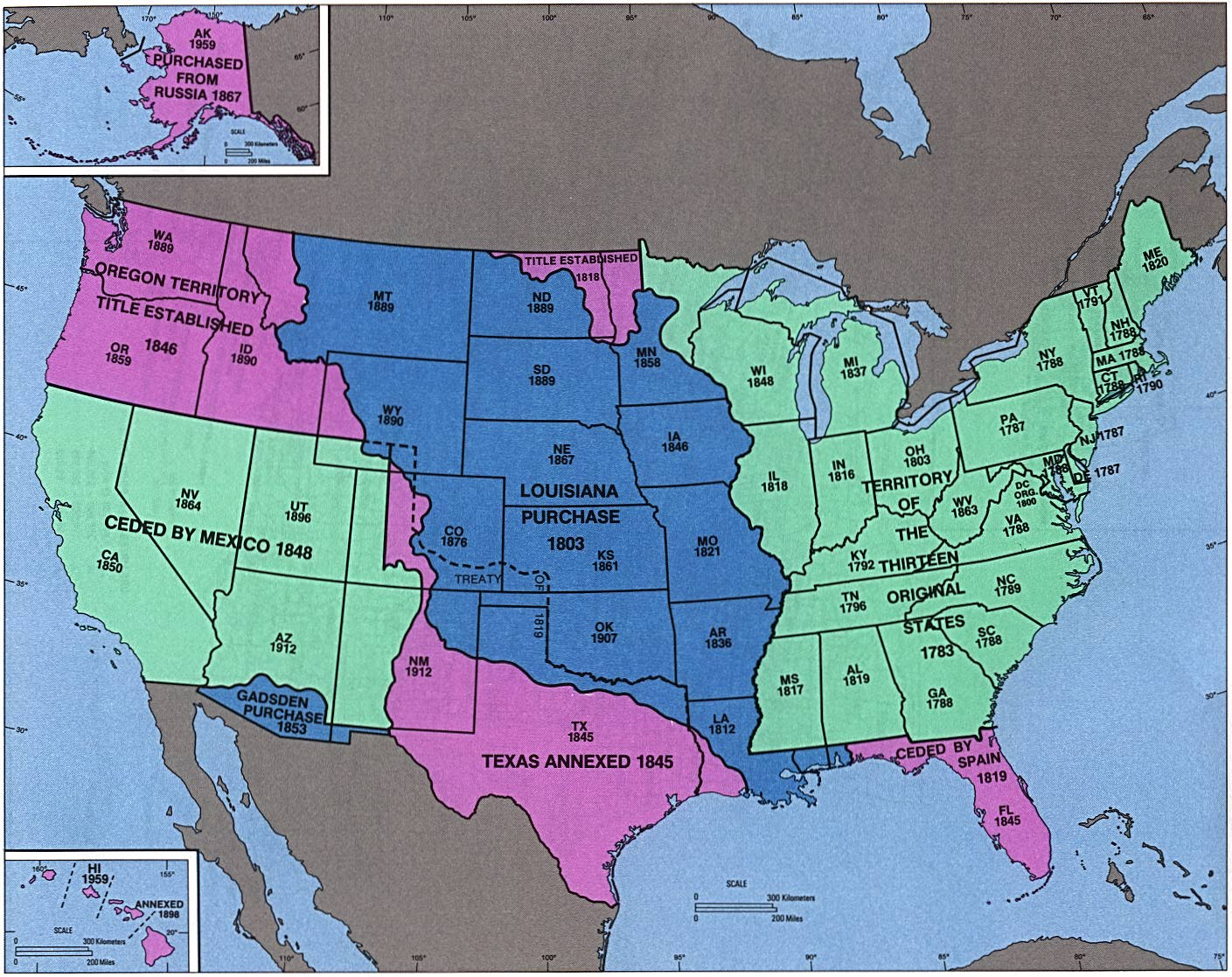 perry-castenada: Admission of States and Territorial Acquisition U.S. Bureau of the Census (341K)